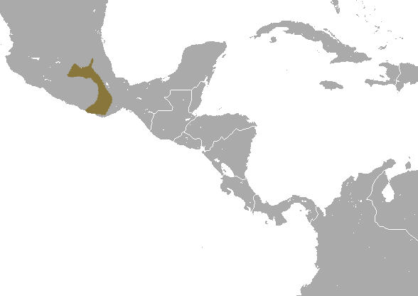 Chestnut-bellied Shrew (Sorex ventralis) range